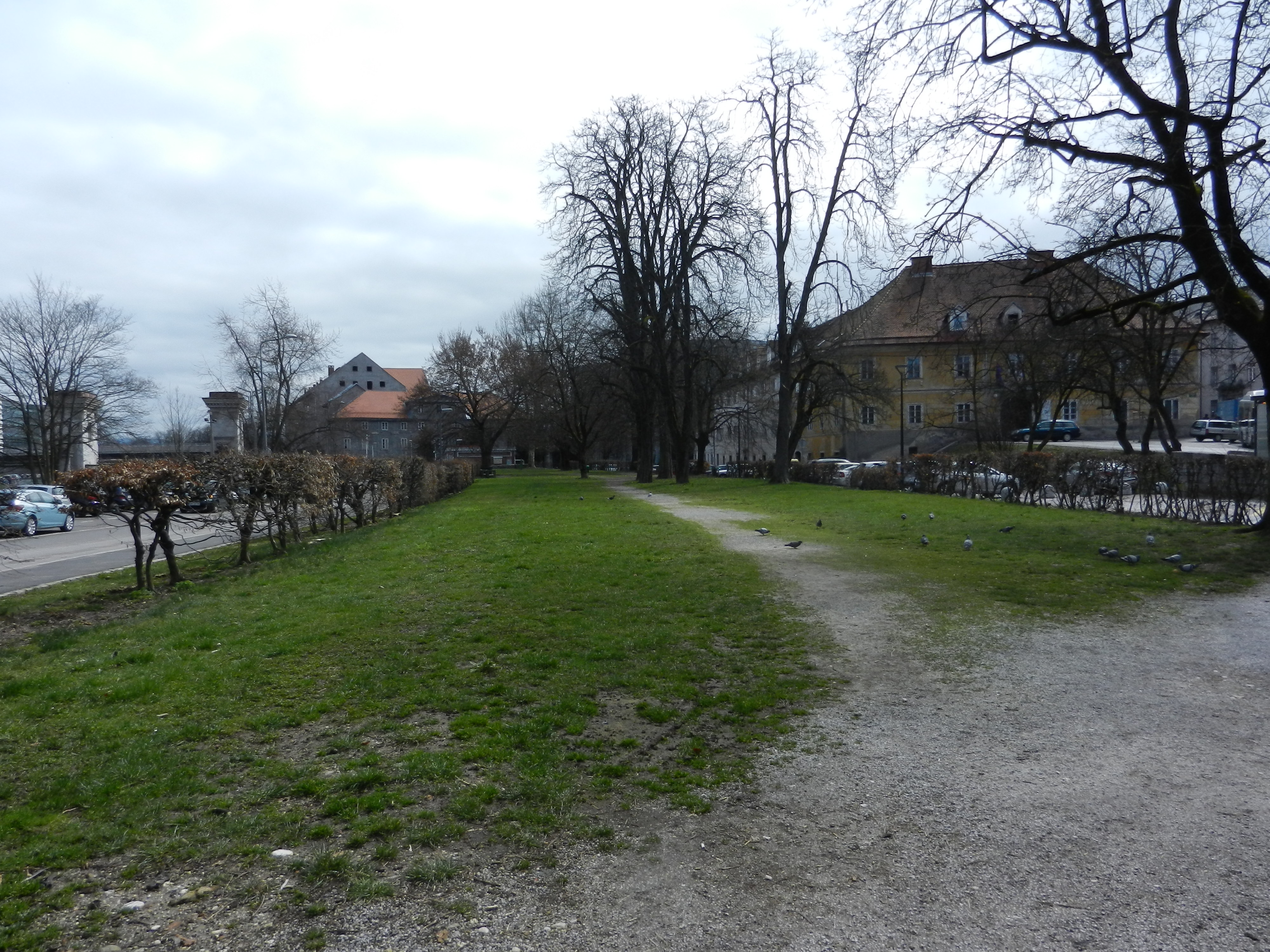 Ambrož Park in Ljubljana